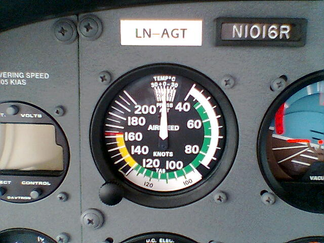 Air Speed indicator Cessna 172